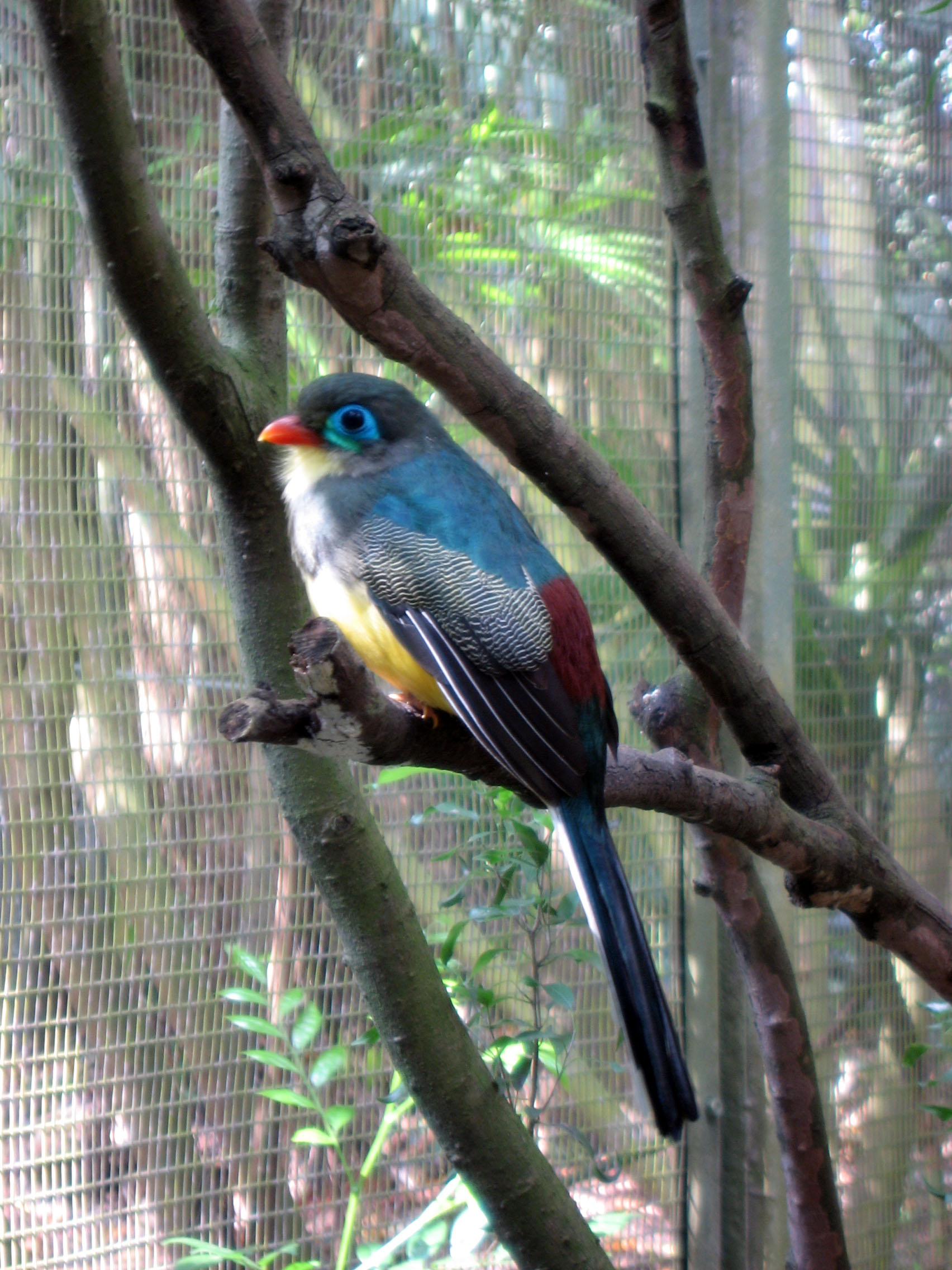 Picture of a male Apalharpactes mackloti, commonly known as the Sumatran Trogon, taken at the Jurong BirdPark, Singapore.